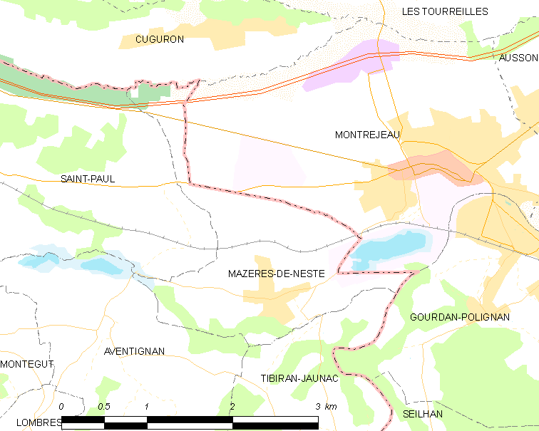 Map of French municipality